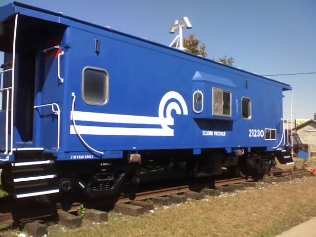 Restored Conrail Baywindow Caboose on display at National New York Central Railroad Museum